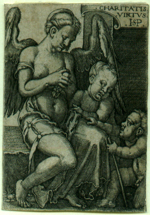 Beham, (Hans) Sebald (1500-1550): Charity (Pauli 139, B. 137). Engraving (with the artist’s monogram). A fine, very strong impression of the only state, trimmed along the platemark, in very good condition apart from a tiny repair along the white border at the bottom (less than 0.5 mm.). Note the artist's monogram HSP, later changed to HSB.